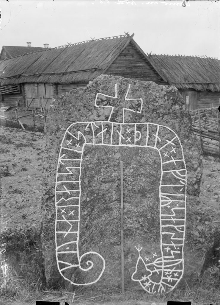 Rune stone (Sö 250) in Jursta. The inscription says: "Gynna raised this stone in memory of Saxe, Halvdan's son". Behind the rune stone is a farmstead.